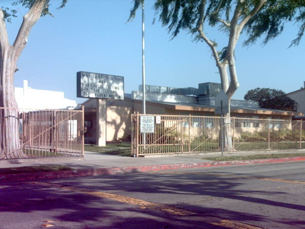 Vista High School Gate, Lynwood, California